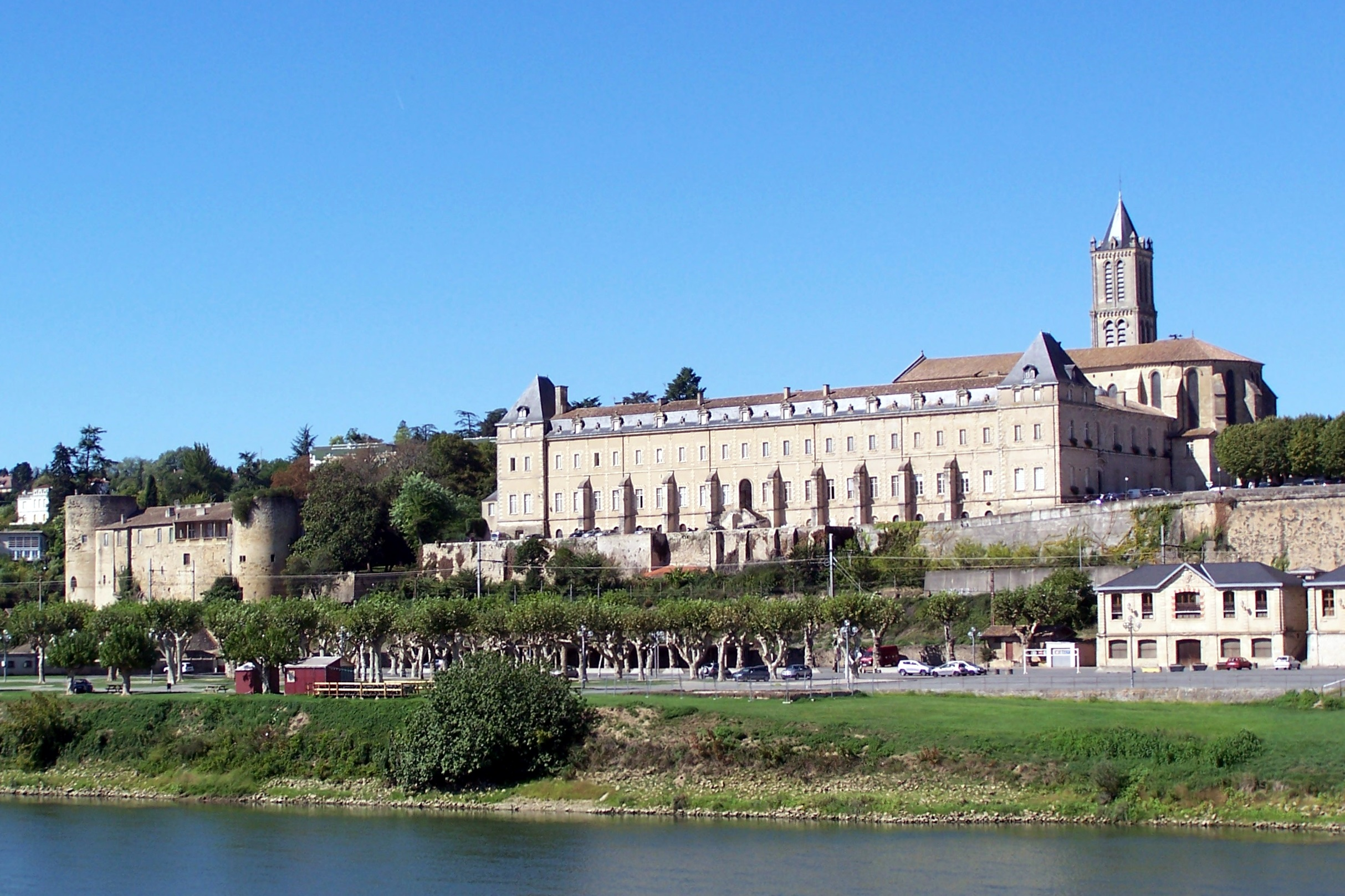 Castle of 4 Sos in La Réole (Gironde, France)